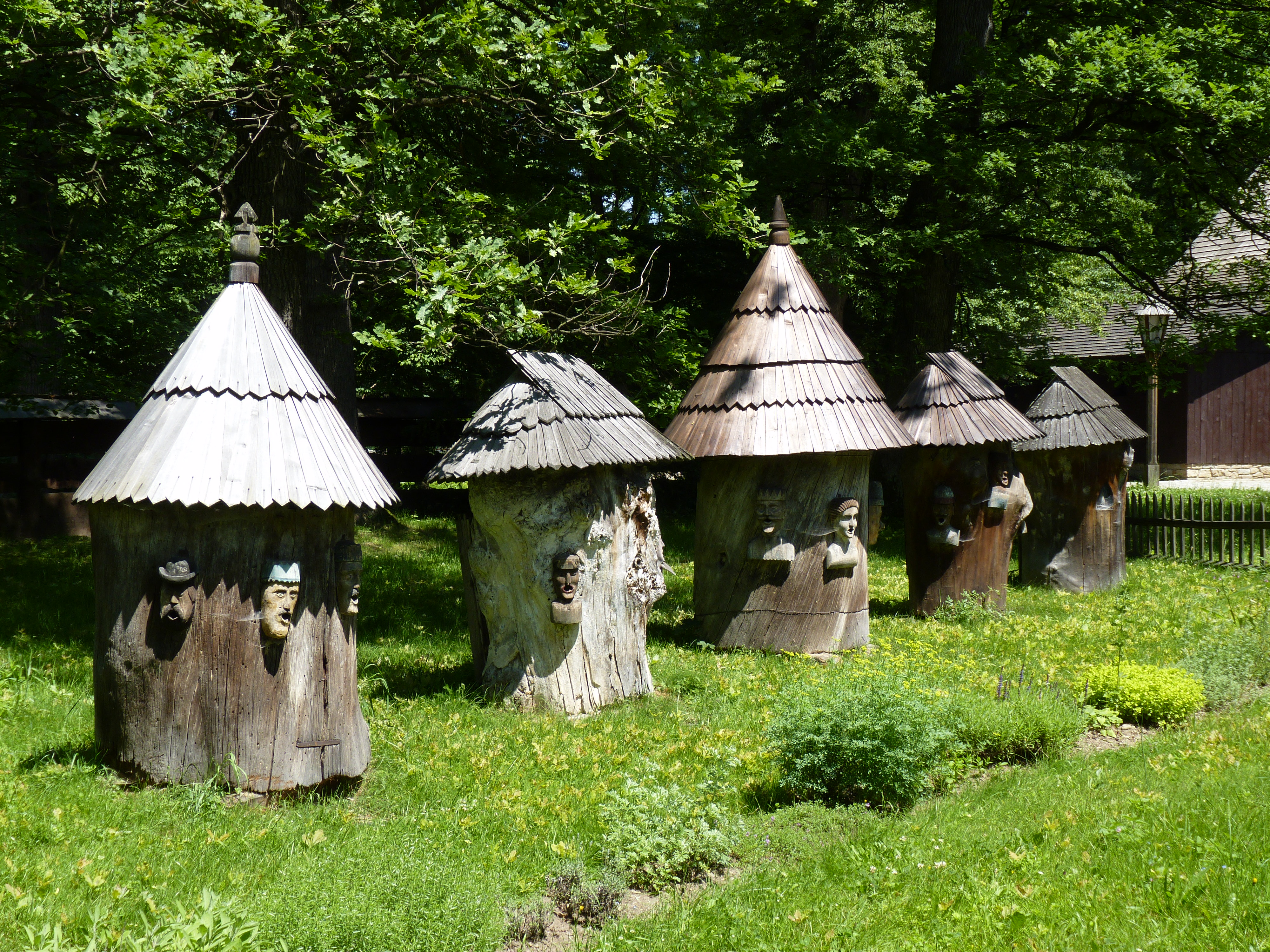 Wallachian Open Air Museum in Rožnov pod Radhoštěm, Zlín Region, Czech Republic